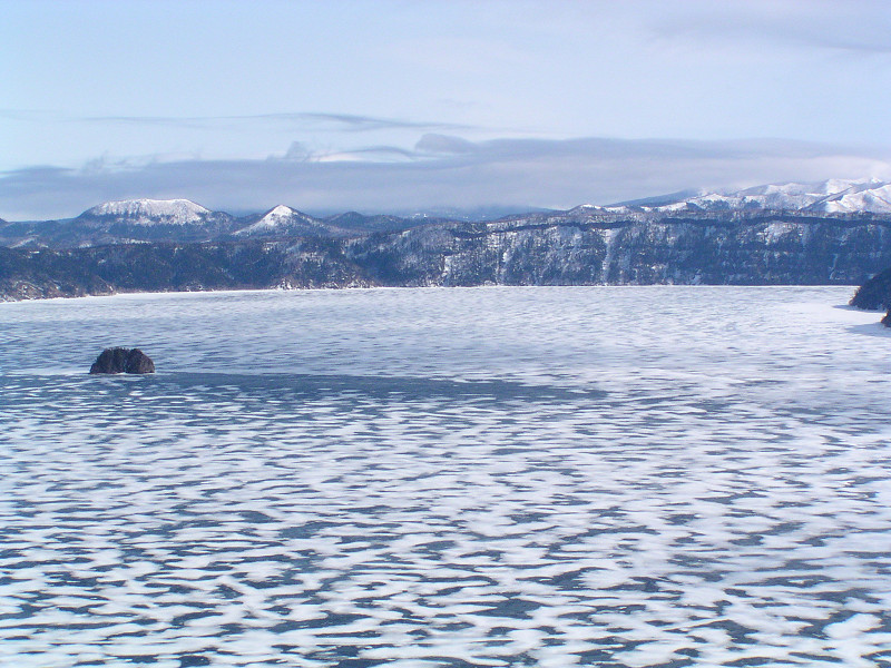 北海道弟子屈町の摩周湖 氷が一部融けている湖 Lake Mashu in deshikaga-town, Hokkaidō, Japan with some of the ice melt.